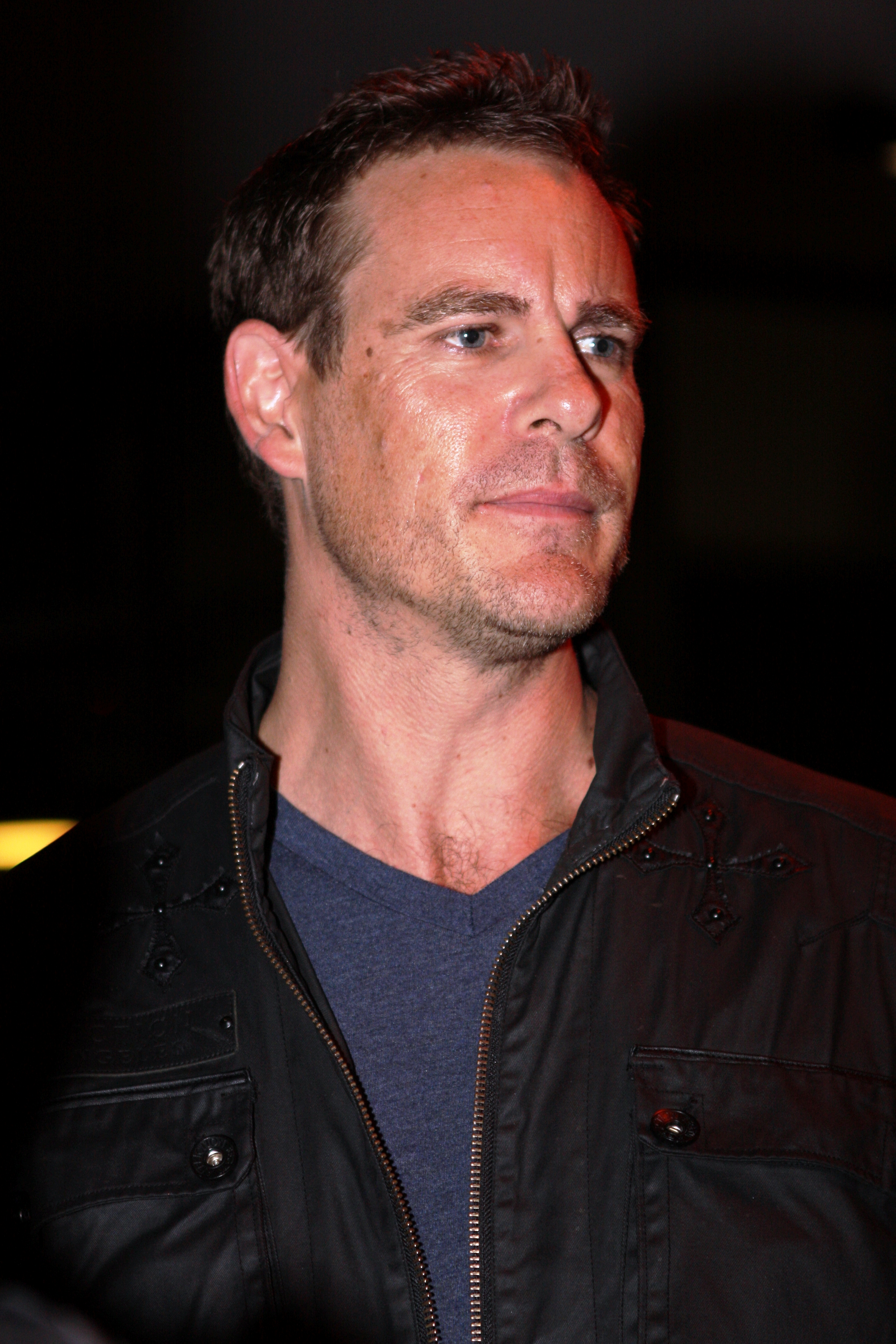 Ducati Launch